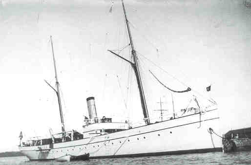 A photo of HNoMS Heimdal during the International Yacht Racing Union's fourth annual Europe week sailing regatta in 1914 at Horten, Norway